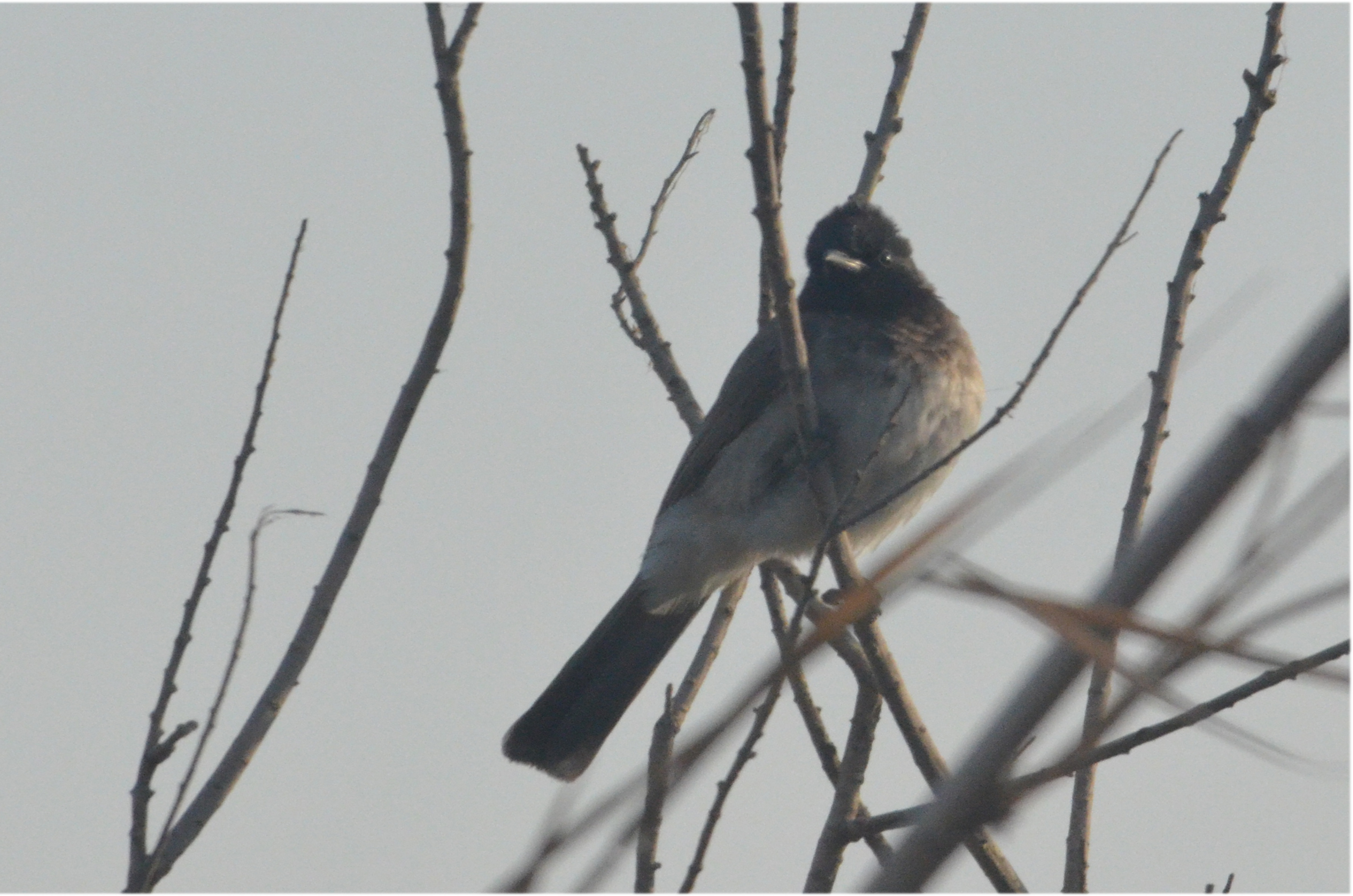 Common bulbul